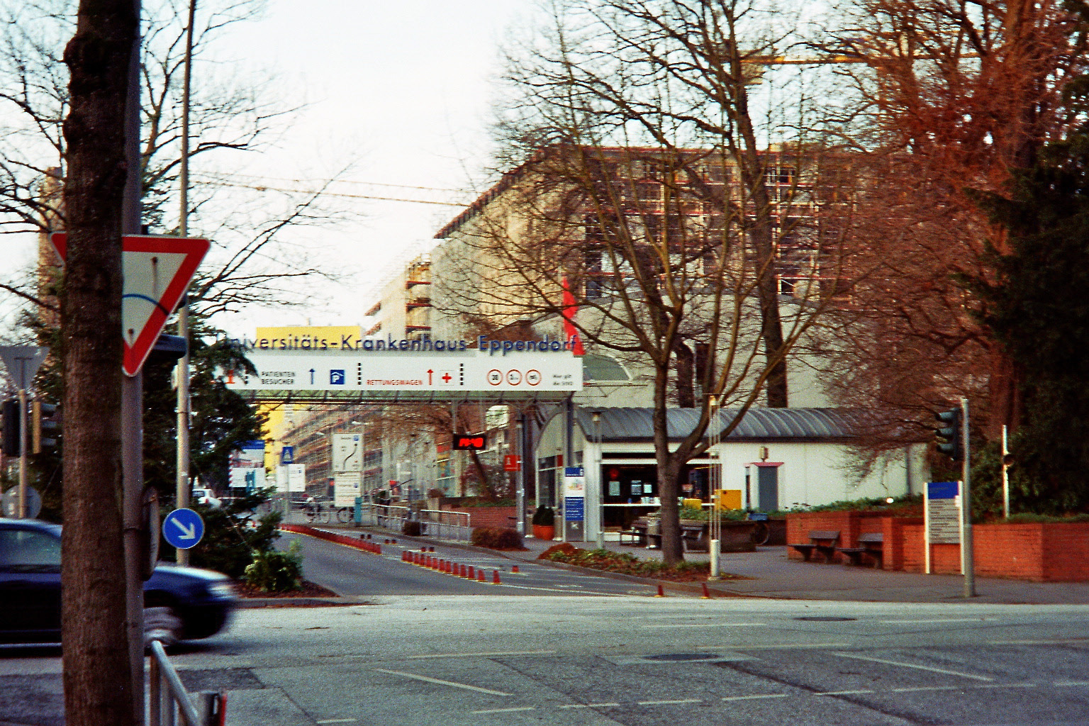 University Medical Center Hamburg-Eppendorf main entrance 2006